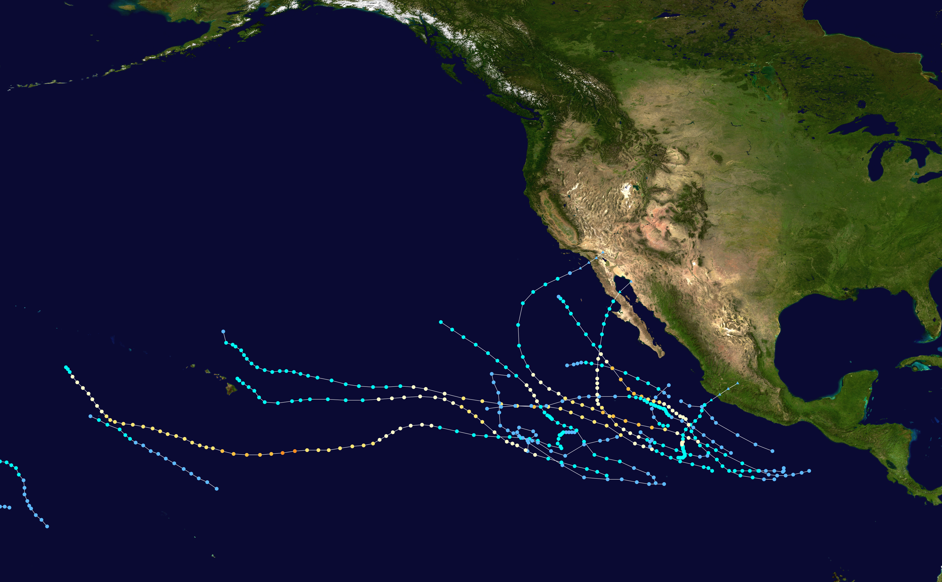 This map shows the tracks of all tropical cyclones in the 1972 Pacific hurricane season. The points show the location of each storm at 6-hour intervals. The colour represents the storm's maximum sustained wind speeds as classified in the Saffir-Simpson Hurricane Scale (see below), and the shape of the data points represent the type of the storm. Saffir–Simpson hurricane wind scale Tropical depression≤38 mph≤62 km/h Category 3111–129 mph178–208 km/h Tropical storm39–73 mph63–118 km/h Category 4130–156 mph209–251 km/h Category 174–95 mph119–153 km/h Category 5≥157 mph≥252 km/h Category 296–110 mph154–177 km/h Unknown Storm typeTropical cycloneSubtropical cycloneExtratropical cyclone / Remnant low / Tropical disturbance